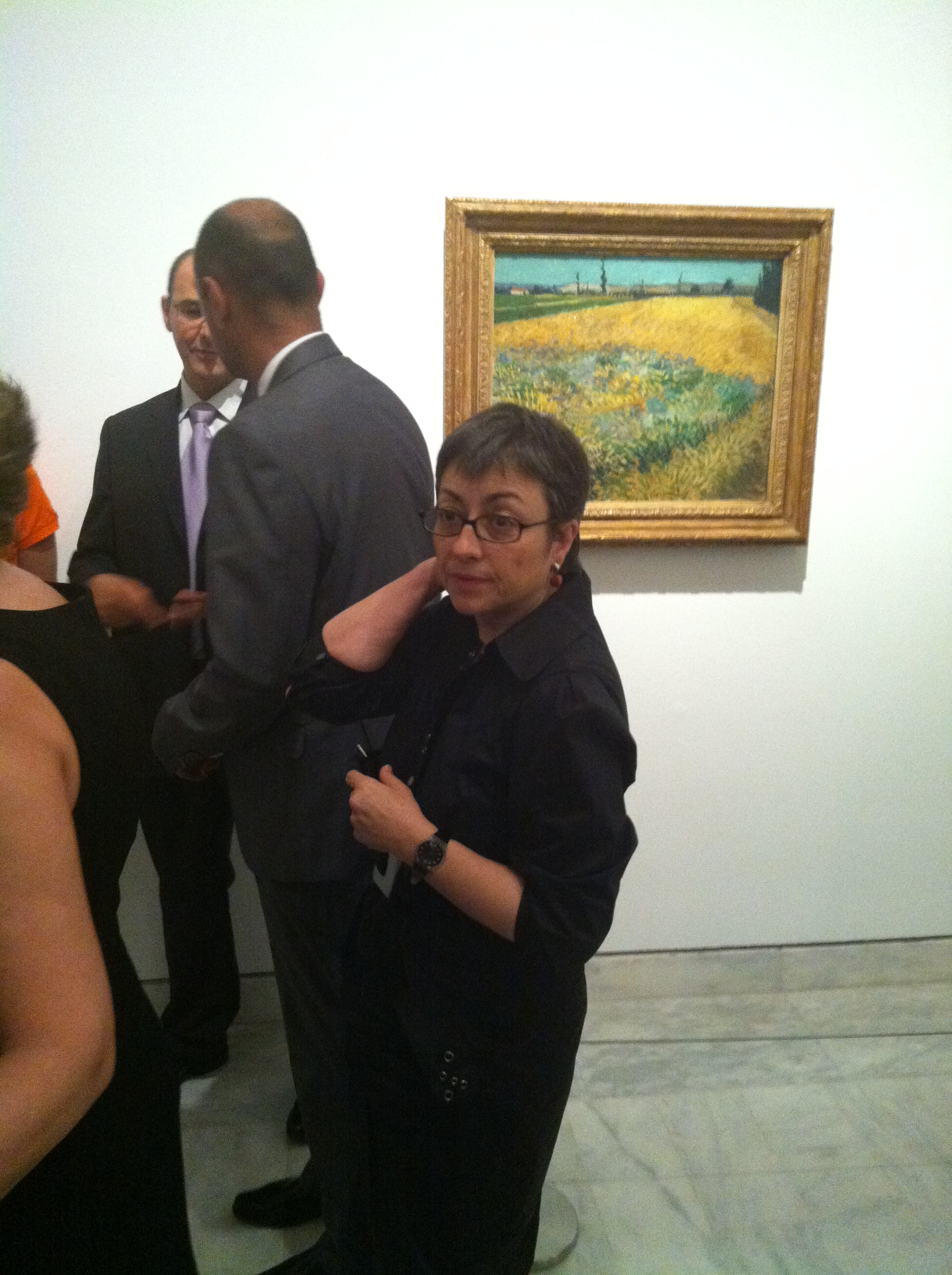 Picasso-Devorar París, openning of the temporary exhibition at Museu Picasso of Barcelona. 2011